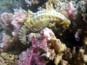 Photographed in the Knysna Estuary, 2009